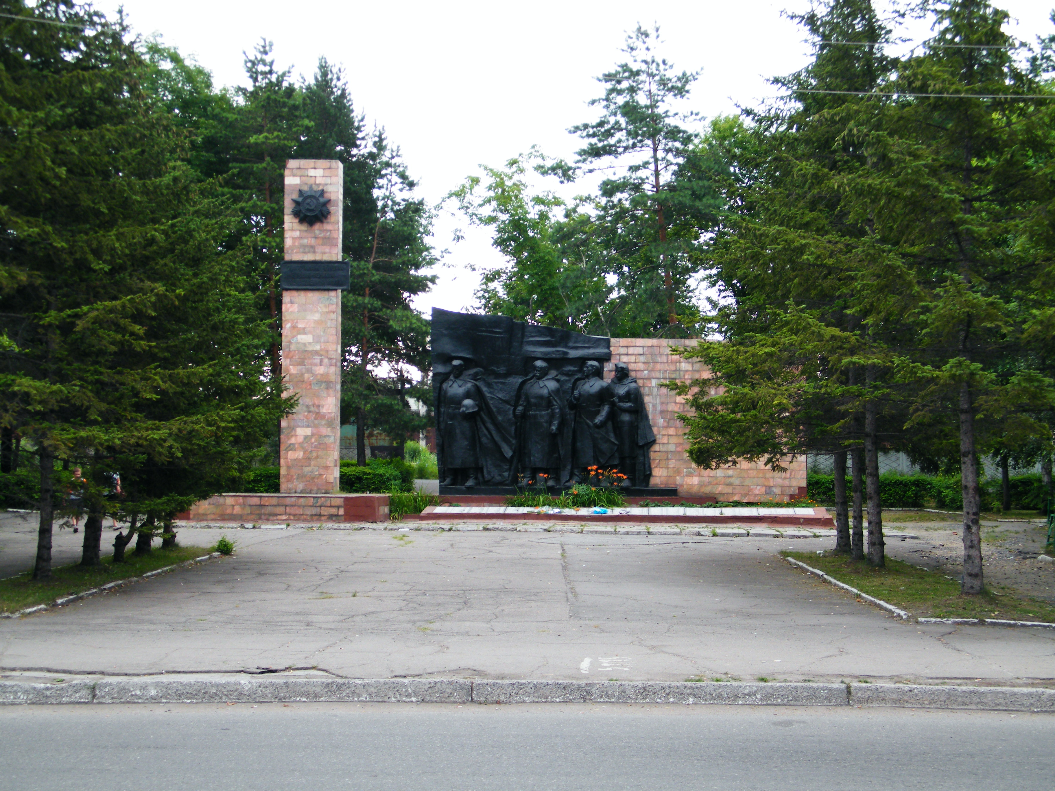 Spassk-Dalniy